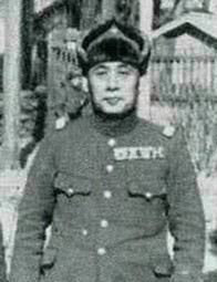 General Kiyoshi Katsuki (1881-1950)